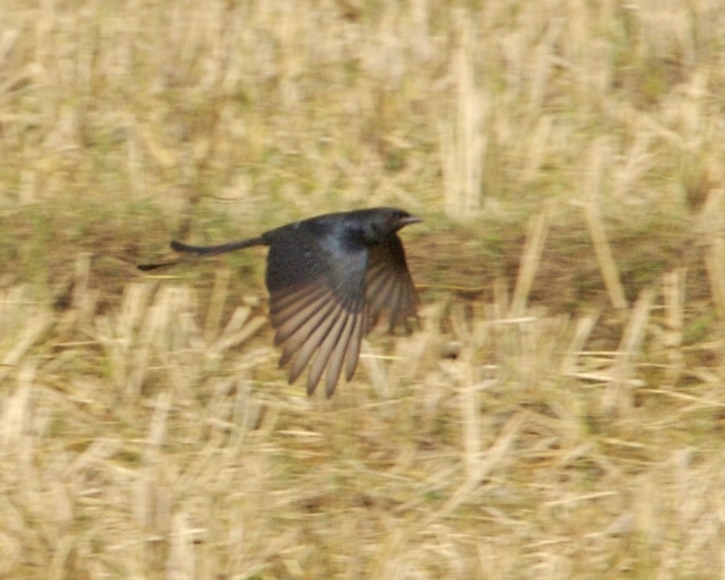 Black Drongo, Dicrurus macrocercus Location: Vedanthangal Water Birds Sanctuary, Tamil Nadu, India May 11, 2007 _Q0S5598